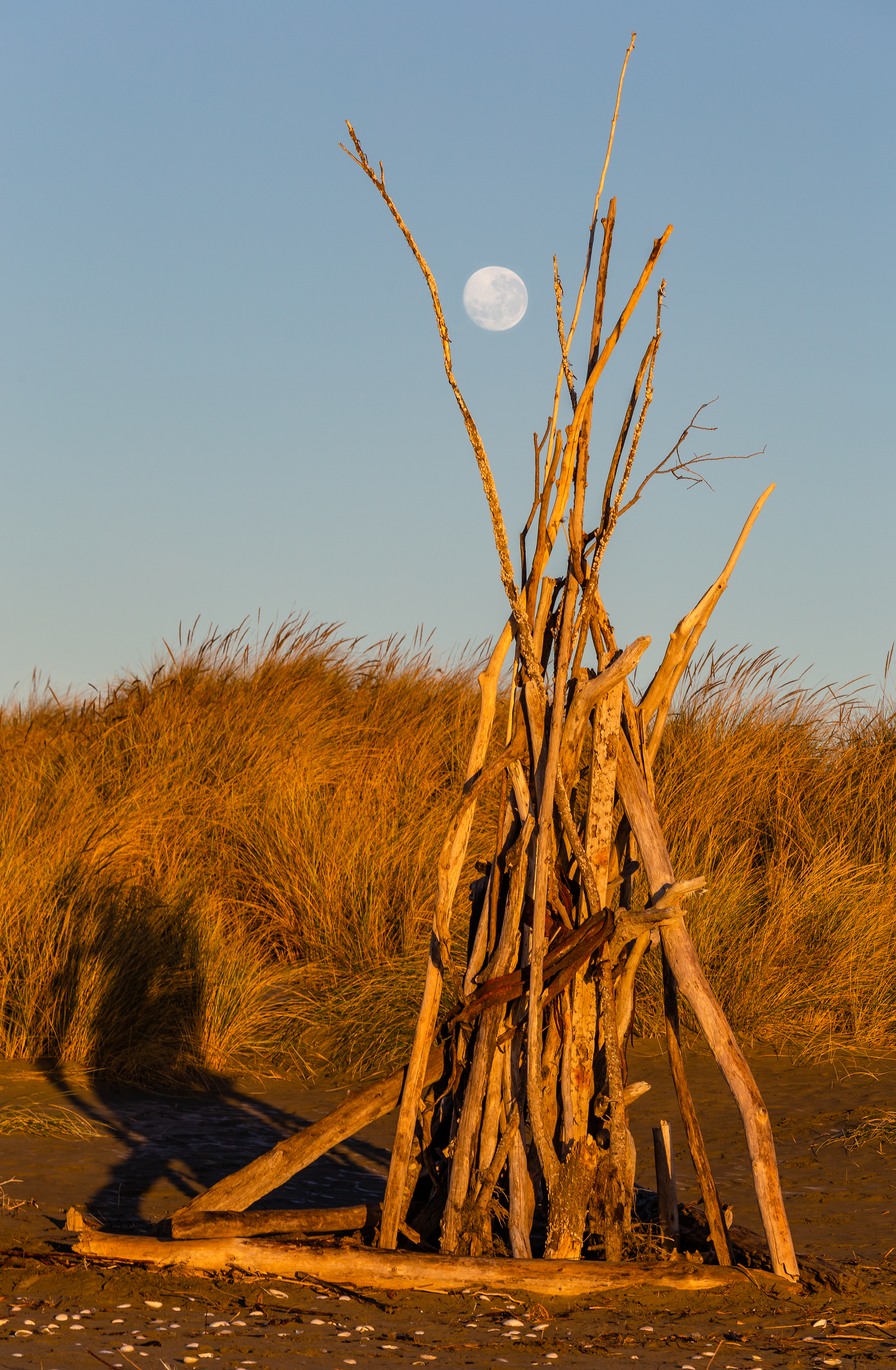 Structure from driftwood on the beach in New Brighton, Christchurch, New Zealand. The picture is photostacked from 2 photos: one photo is focused on the structure, other photo is focused on the moon